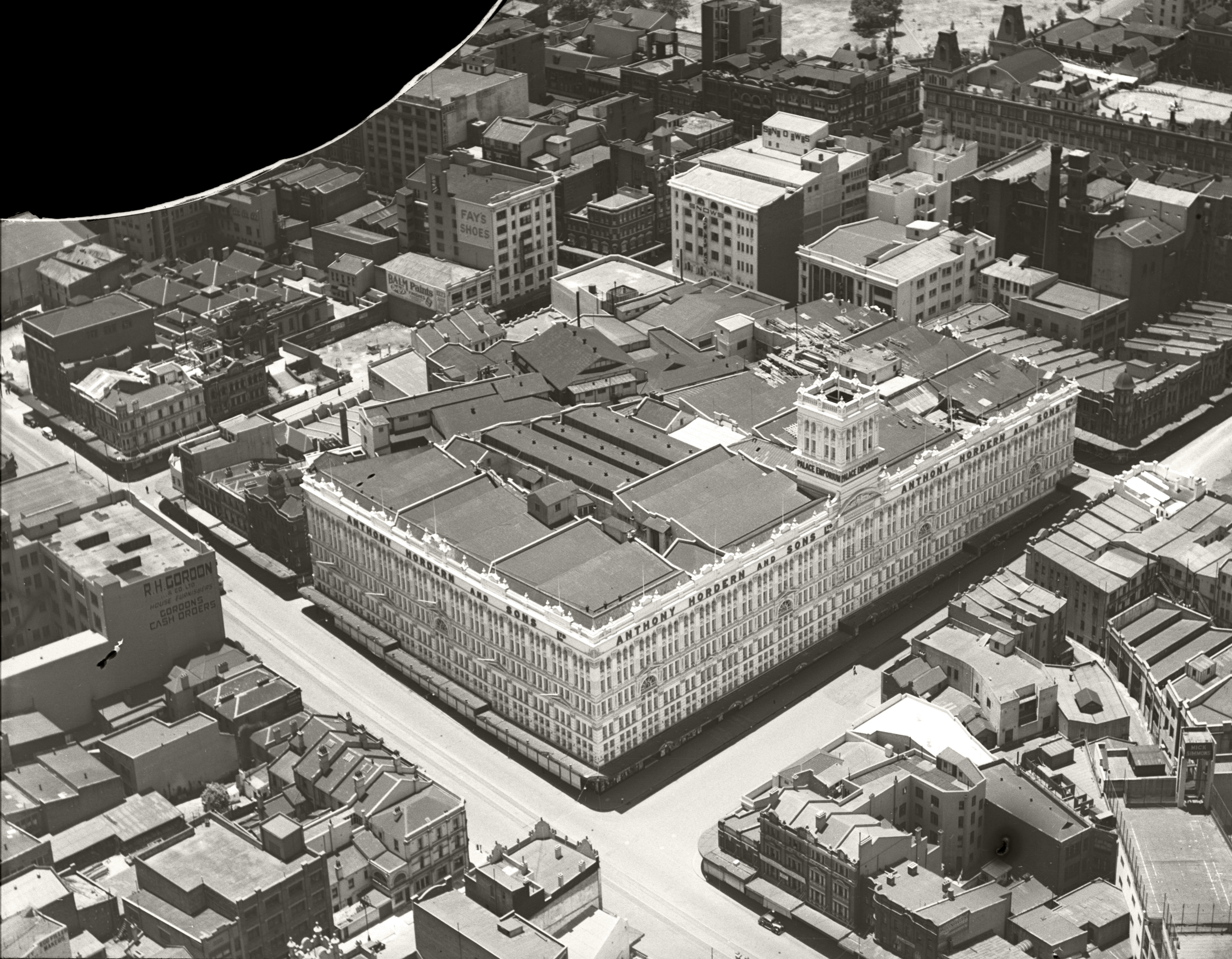 Aerial view of Anthony Hordern & Sons, it was the largest department store in Sydney, New South Wales, Australia. Anthony Hordern's was also once the largest department store in the world. The historic building was demolished in the 1980s in order to build a skyscraper. The government minister at the time described the building as "gerry-built," which was why it was demolished.